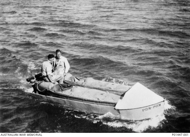 Careening Bay, Western Australia. A pair of one-man submersible canoes, known as "sleeping beauties", are transported in a small boat named Pom Pom during Z Special Training at the Services Reconnaissance Department (SRD) Training Base. Fifteen "sleeping beauty" canoes were taken in late 1944 on "Operation Rimau", the second and abortive Singapore raid.